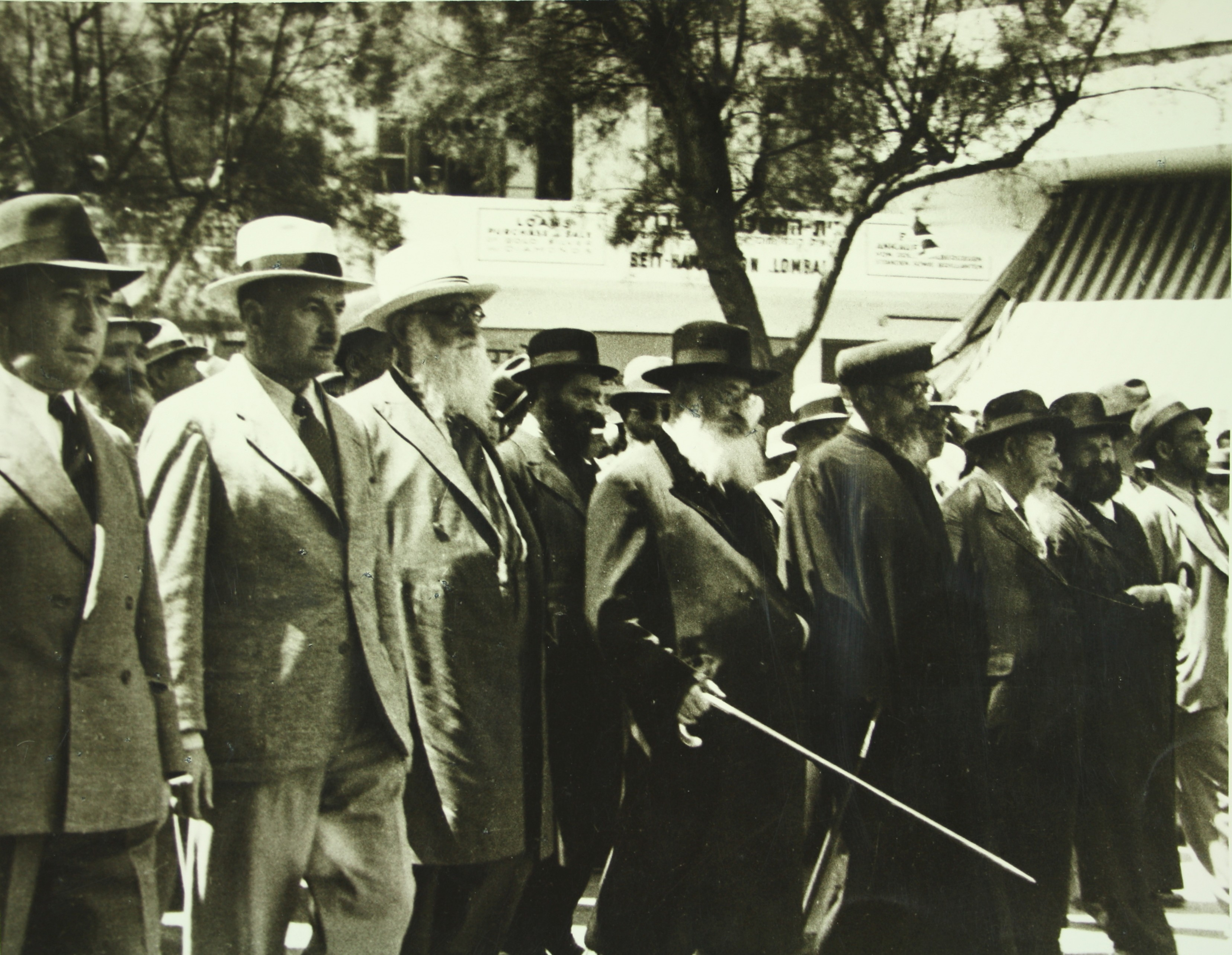 Demonstration in Tel Aviv against the British mandate policy.